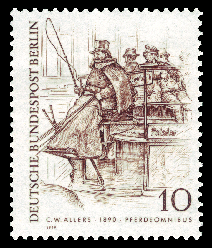 People of Berlin of the 19th century